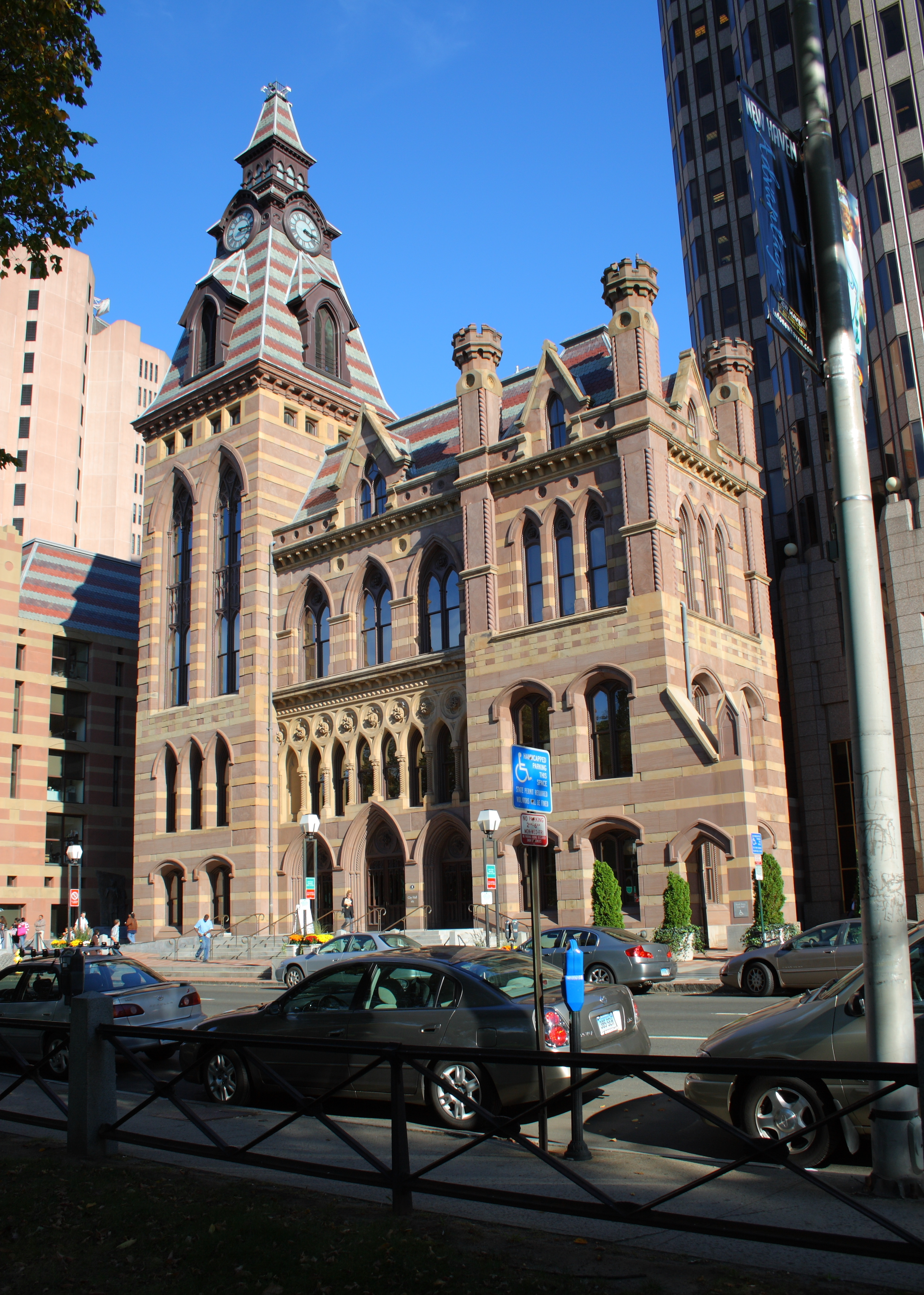 The front of New Haven City Hall, 161 Church St., a Victorian Gothic structure designed by Henry Austin and a Registered Historic Place.